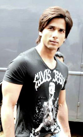 A man wearing brown t-shirt, in an airport.